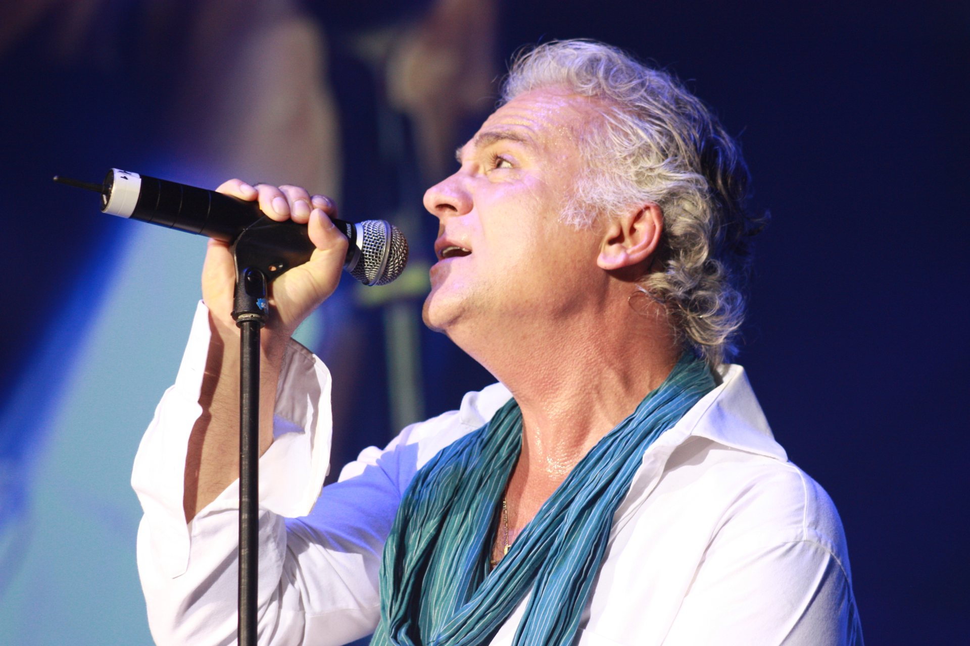 Nino de Angelo in Magdeburg, 2010